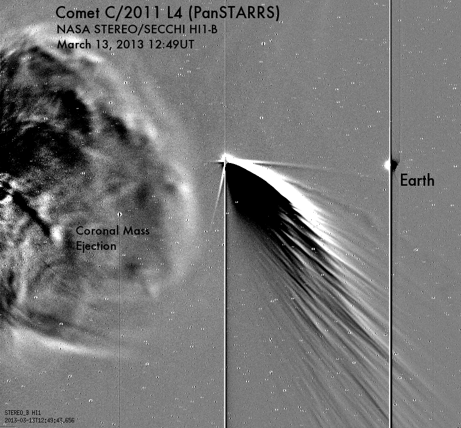 Nothing else has seen Comet Pan-STARRS like this: the comet posing with earth itself, seen from the STEREO Behind spacecraft. Following in earth's orbit, the spacecraft is nearly opposite the sun and looks back toward the comet and earth, with the sun just off the left side of the frame. At the left, a substantial coronal mass ejection (CME) is erupting from a solar active region. The comet is way in the foreground of this image from the spacecraft. The processed digital image is the difference between two consecutive frames from the spacecraft's SECCHI Heliospheric Imager, causing the strong shadowing effect for objects that move between frames. Objects that are too bright create the sharp vertical lines. The processing reveals complex feather-like structures in Comet Pan-STARRS caused by dust particles. The ion tail is the thin one that's pointing almost radially away from the sun.